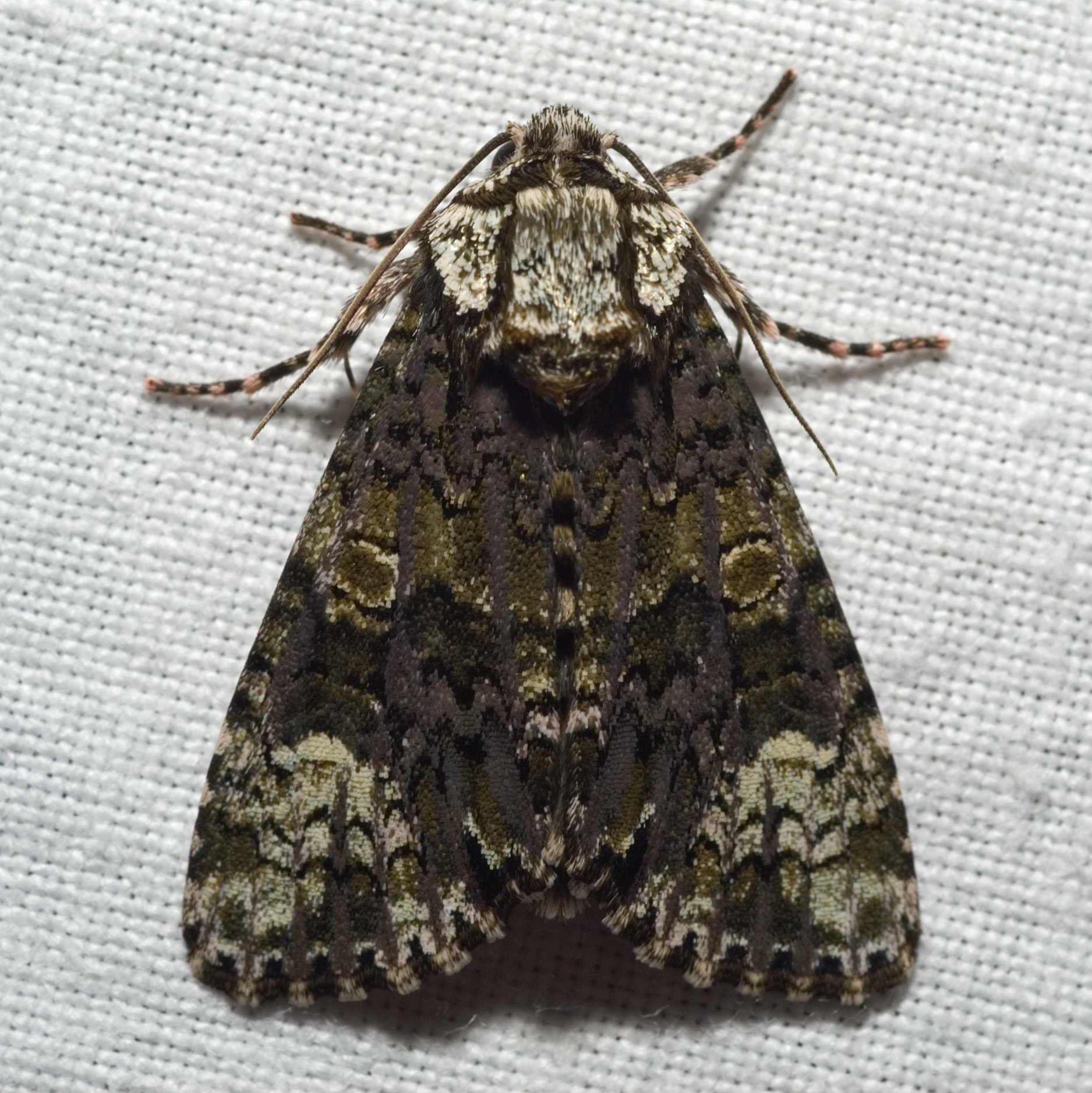 Description: Craniophora ligustri